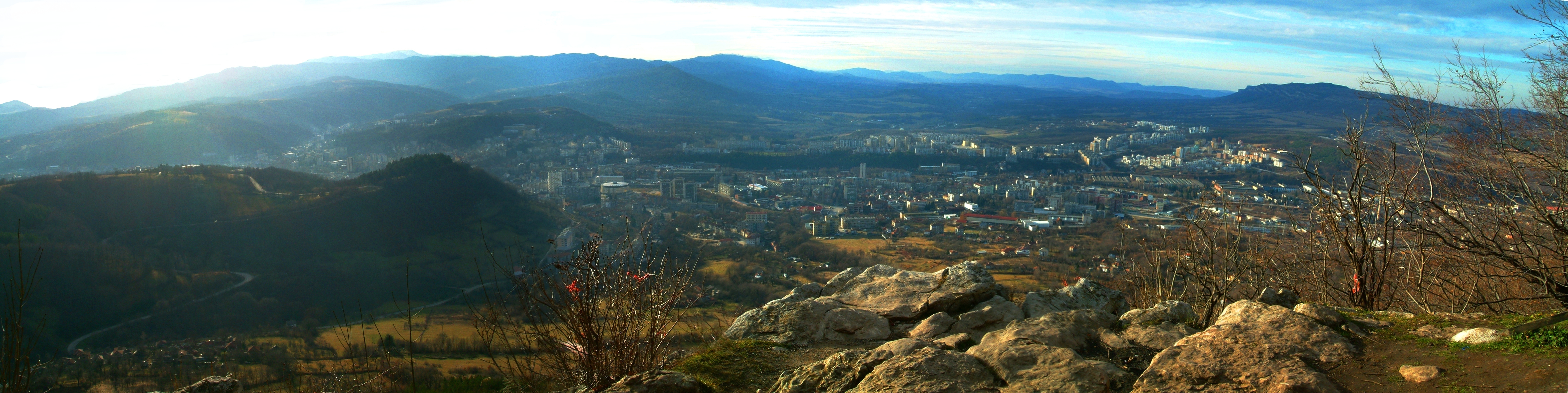 View from TV Tower - Gabrovo (park Gradishte)